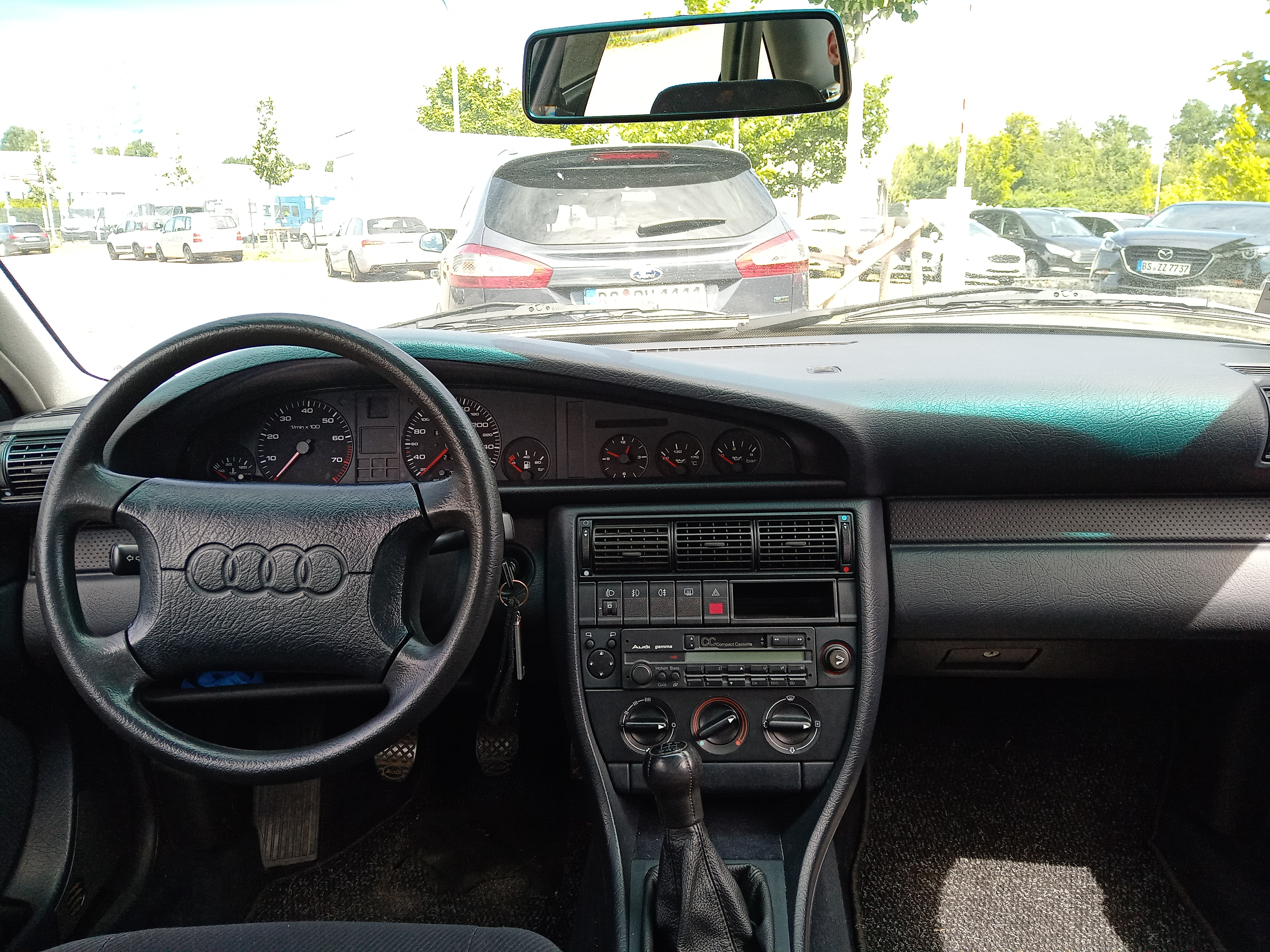 Interior of a 1994 Audi 100 C4